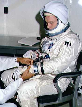 Ed White wearing the A1C suit for Apollo 1